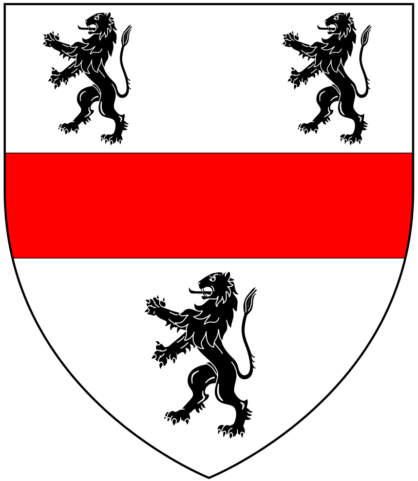 Arms of Thorne of Thorne (in the parish of Holsworthy (?)), Devon: Argent, a fess gules between three lions rampant sable (Vivian, Lt.Col. J.L., (Ed.) The Visitations of the County of Devon: Comprising the Heralds' Visitations of 1531, 1564 & 1620, Exeter, 1895, p.727)